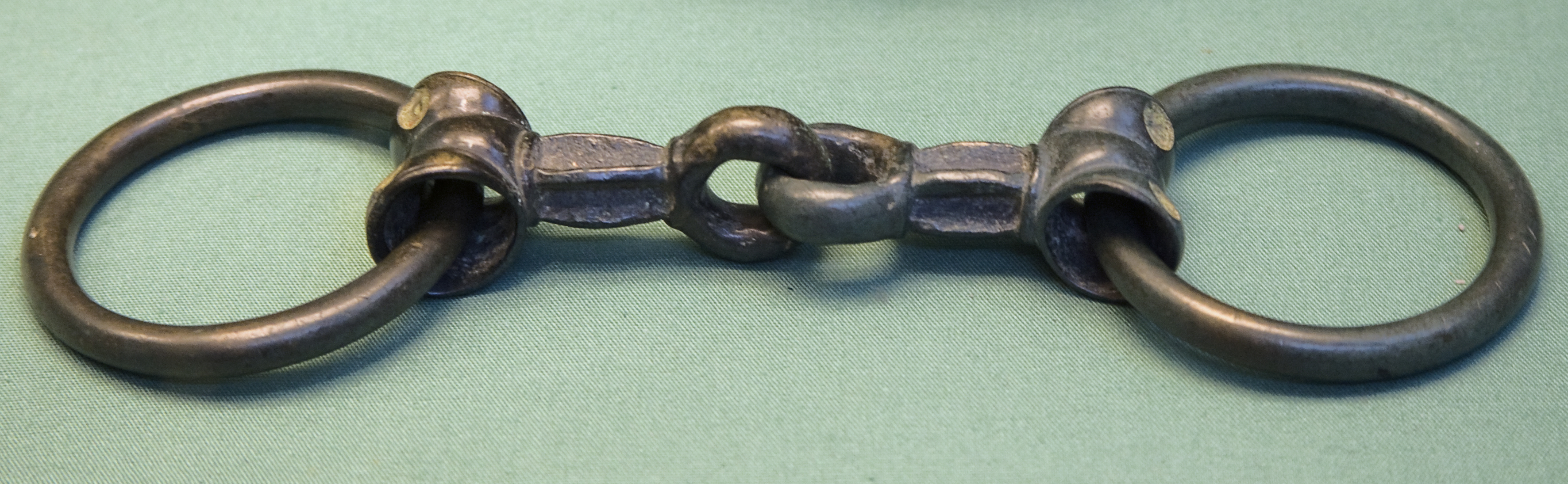 Snaffle bit in bronze from the Polden Hill Hoard, Somerset, now in the British Museum. Tag on exhibit reads: "Bridle-bit, buried AD 80-150, Polden Hill Hoard, Somerset. Several different sets of horse harness in cast bronze with opaque red glass inlay are represented in the hoard. Presened by Sir A W Franks PRB 1846 3-22 58, 70, 77, 83, 108" See BM database entry for details.